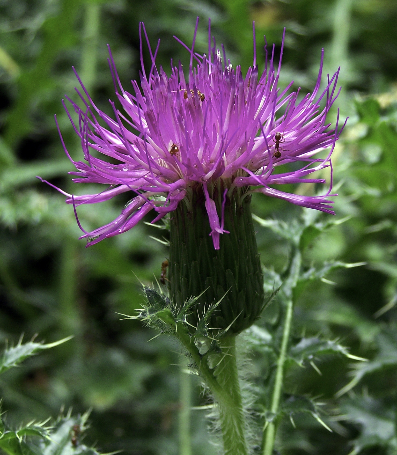 Species: Cirsium acaule f. caulescens Common name: Dwarf Thistle